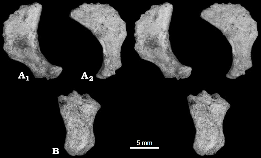 Ischia and pubis of Catopsbaatar catopsaloides (Kielan−Jaworowska, 1974), PM 20/107, Upper Cretaceous, red beds of Hermiin Tsav, Hermiin Tsav I locality, Gobi Desert, Mongolia. A. Right ischium (no. 43 in Fig. 1B) in lateral (A1) and medial (A2) views. B. ?left pubis (no. 42 in Fig. 1B) in lateral view. All stereo−photographs.